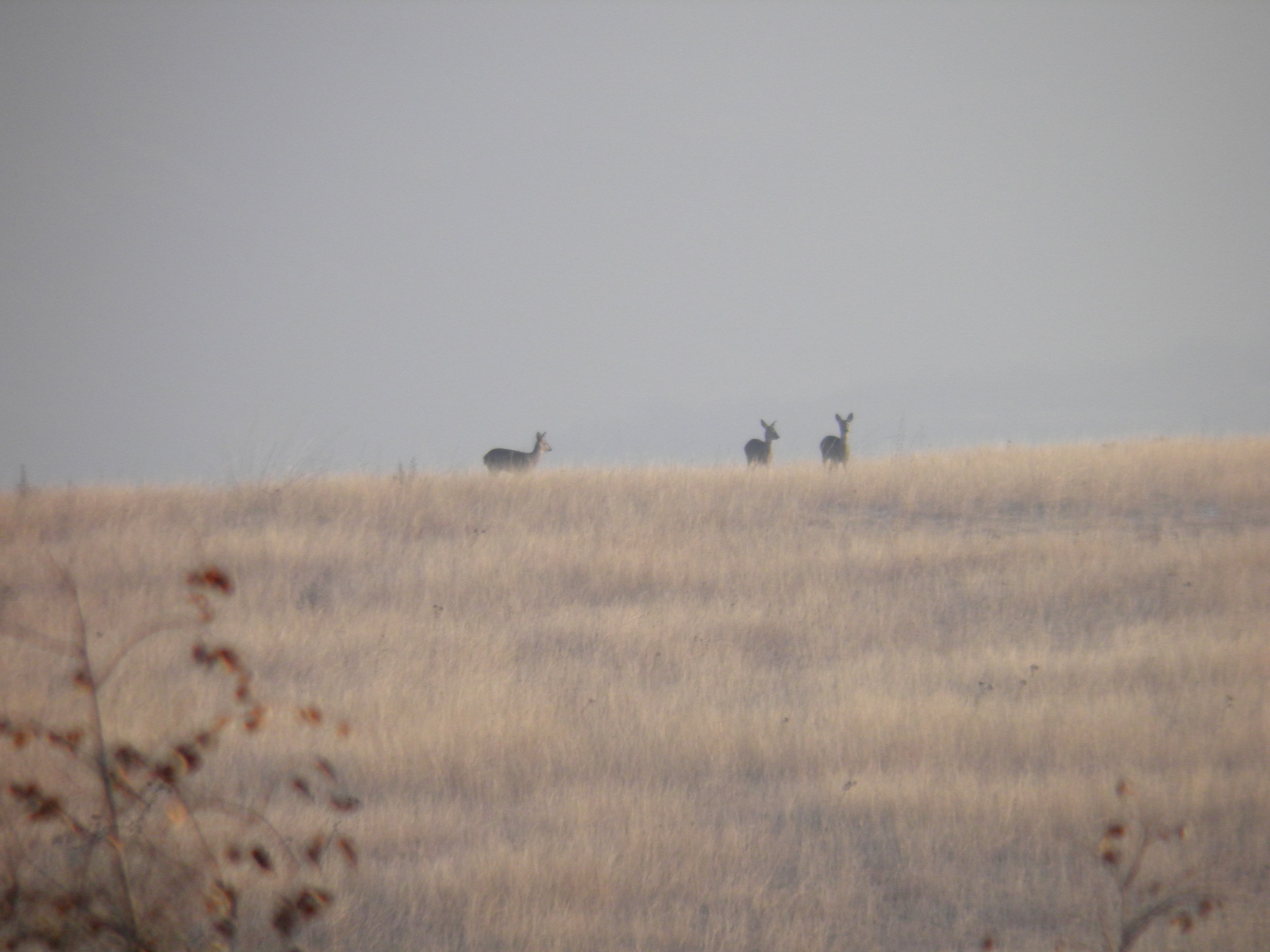 Roe deer in Barchinata,Polski Senovets,Bulgaria